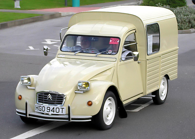 1978 Citroen 2CV AK400 van at the Great West Road Run rally at Aust Services, Aust, Bristol, England.